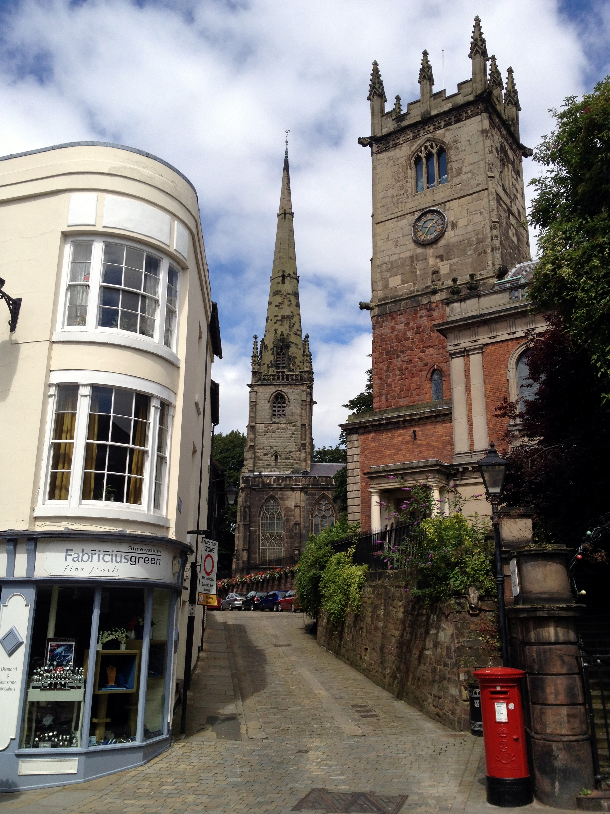 The churches of St Julian (foreground) and St Alkmund (behind) on Milk Street, Shrewsbury, UK